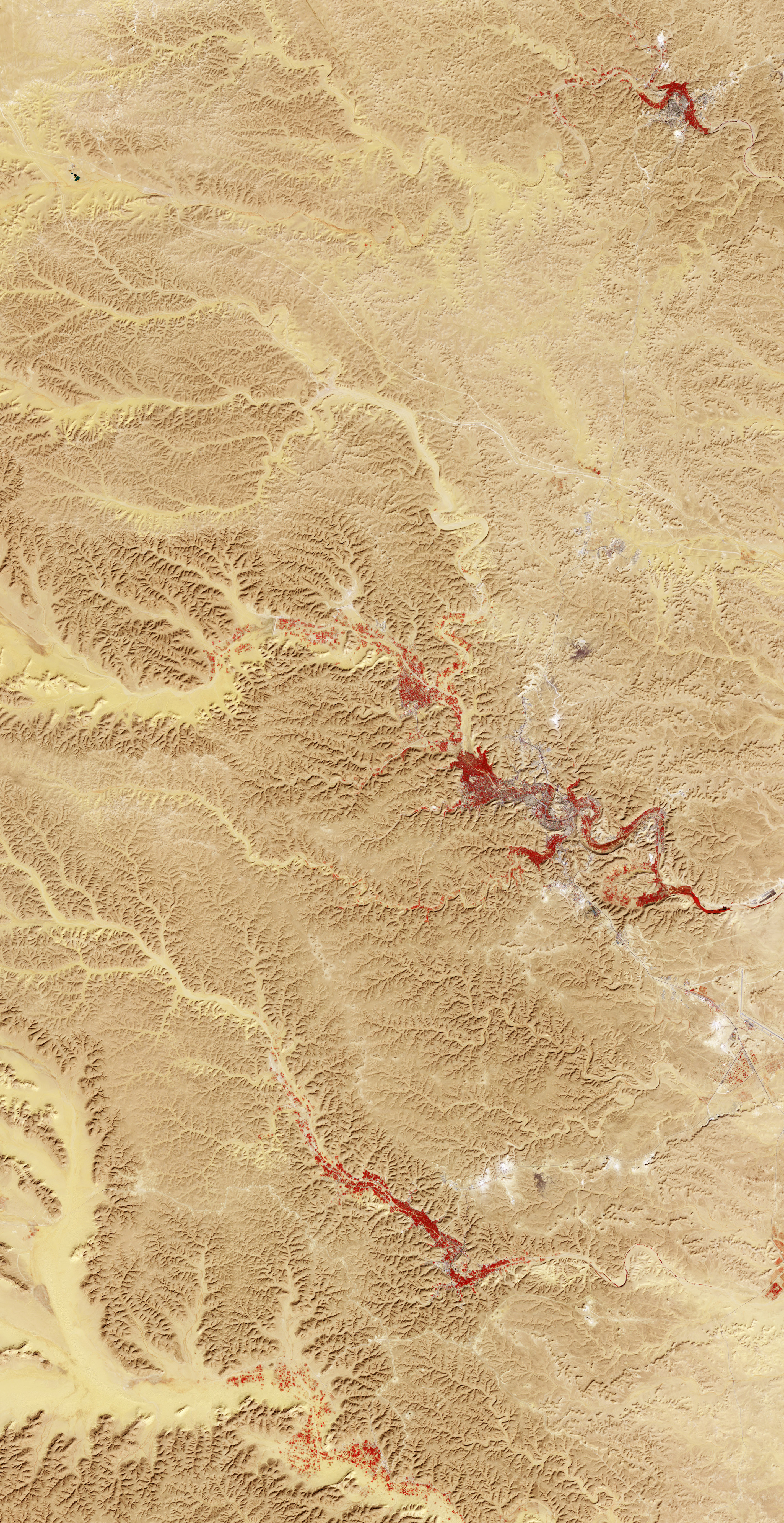 Image of M’zab Valley. Bare rock ranges in colour from beige to peach. Buildings and paved surfaces appear gray. Vegetation is red, and brighter shades of red indicate more robust vegetation.